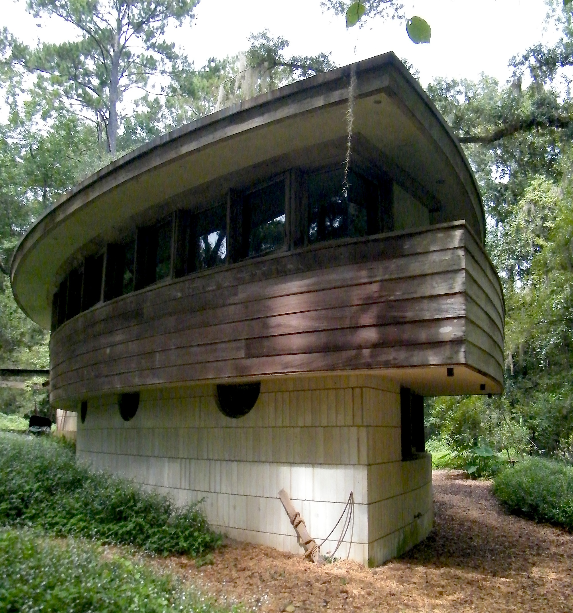 Frank Lloyd Wright "Spring House" in Tallahassee, Florida as of 9-21-2014. South view